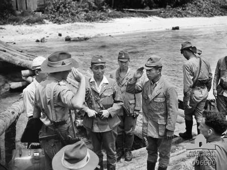 Salute of Australian major S.M. Maxwell and IJN captain Eikichi Kato at Bonis Peninsula, Bougainville.